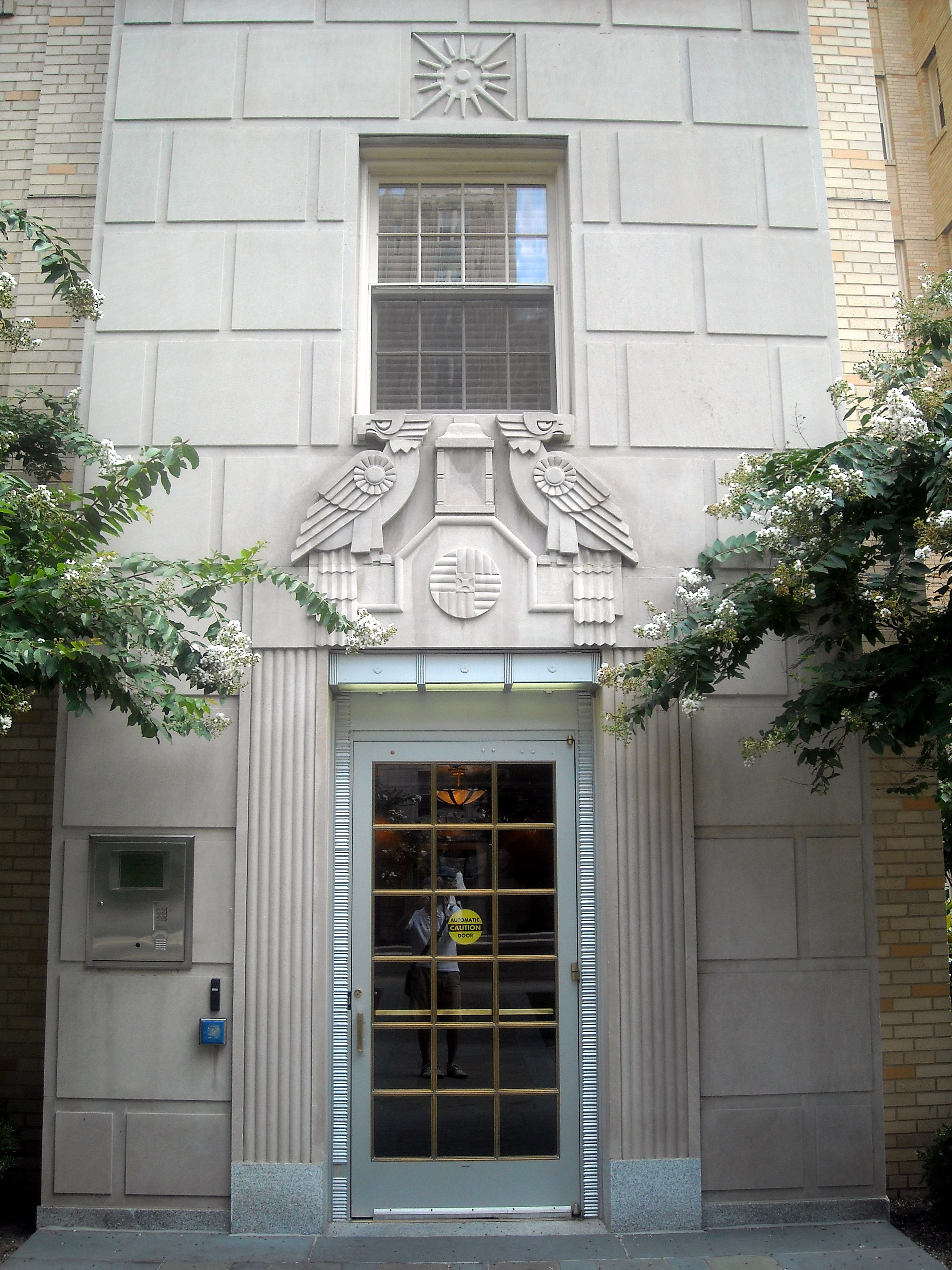 Kennedy-Warren Apartment Building in the Cleveland Park neighborhood of Washington The Art Deco building is listed on the National Register of Historic Places.